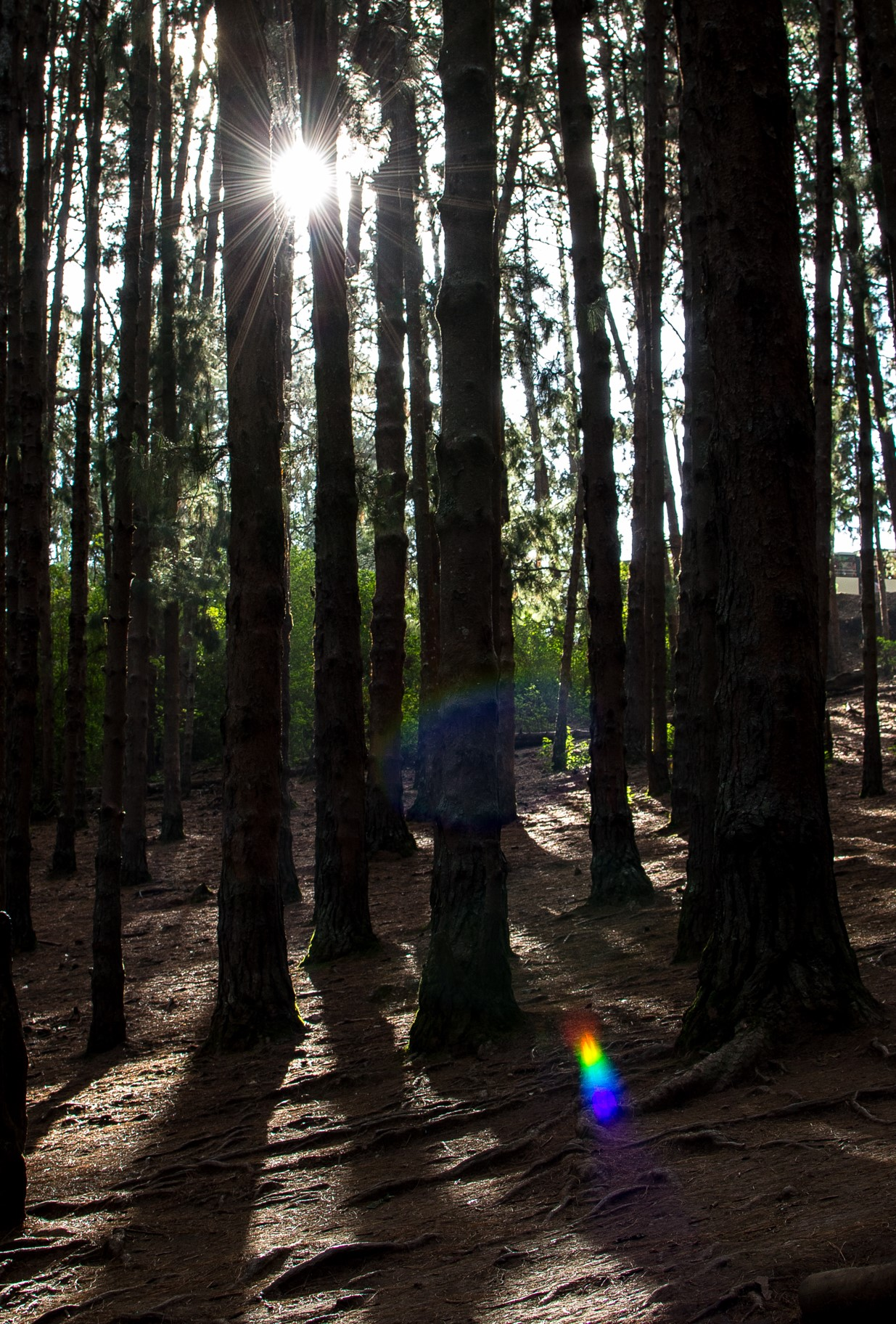 I took this image of pine trees in the pine forest of Ooty.